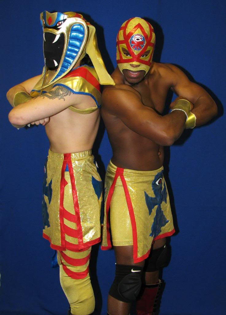 Promo photo of the wrestling tag team The Osirian Portal